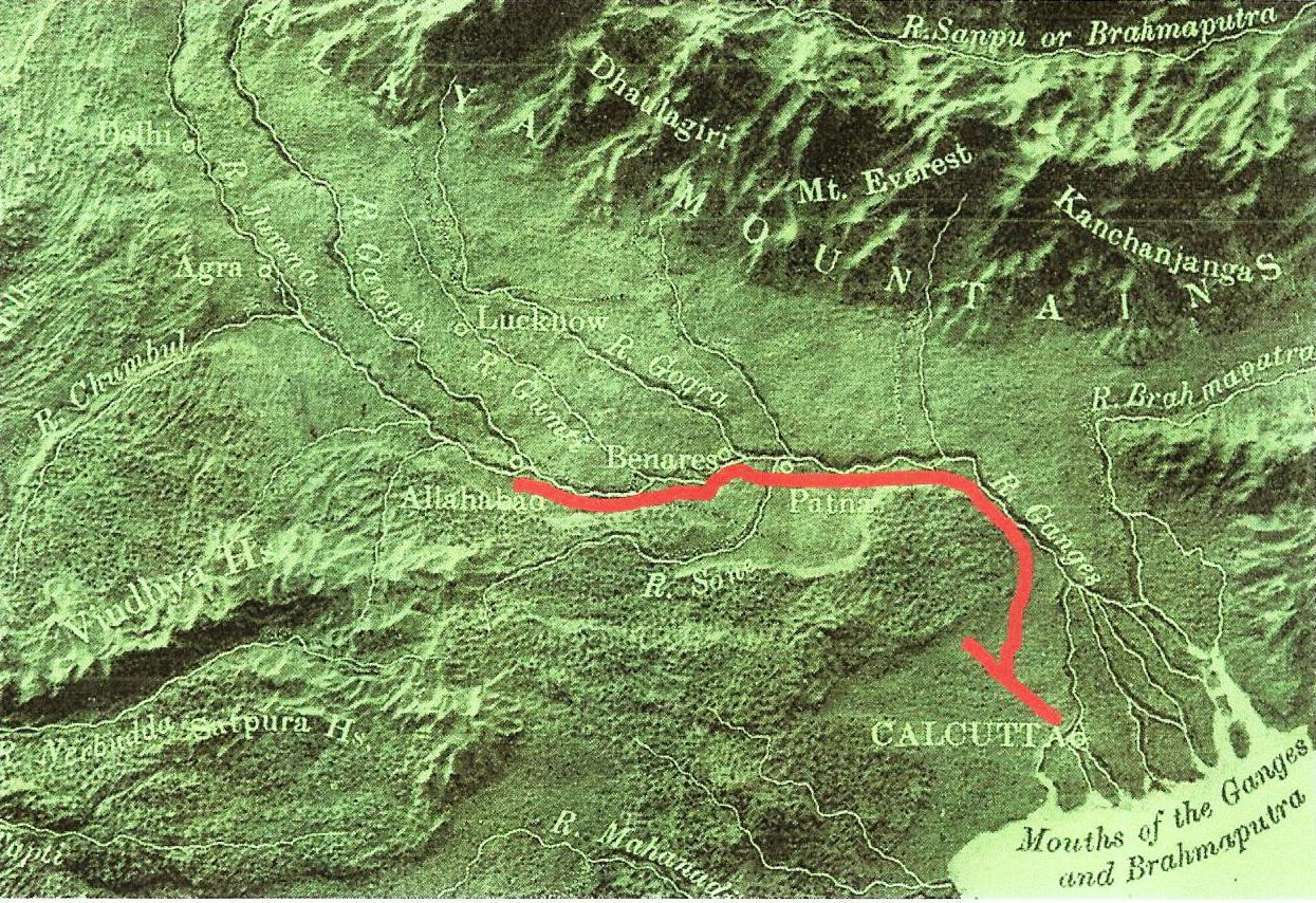 Scan by contributor of 1900-era atlas page with railway route superimposed by contributor.Duncanogi (talk) 21:40, 18 June 2009 (UTC)